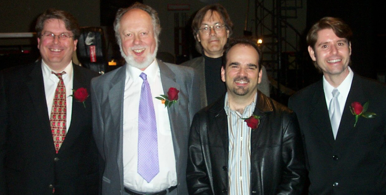 Photo I took backstage following a performance by the Edmonton Symphony Orchestra Front row left to right: Allan Gilliland, Malcolm Forsyth, Alan Gordon Bell, John Estacio, and Jeffrey McCune